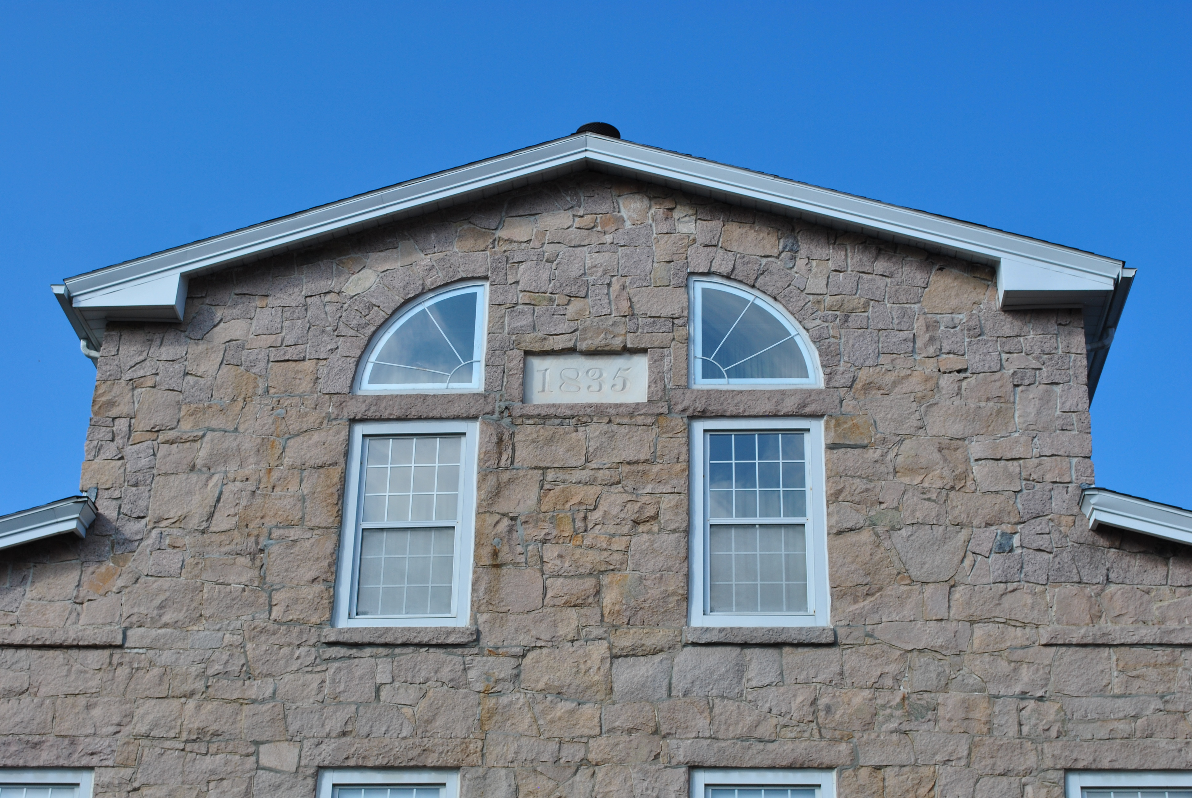 Stone Mill condo with stone marking the year it was built